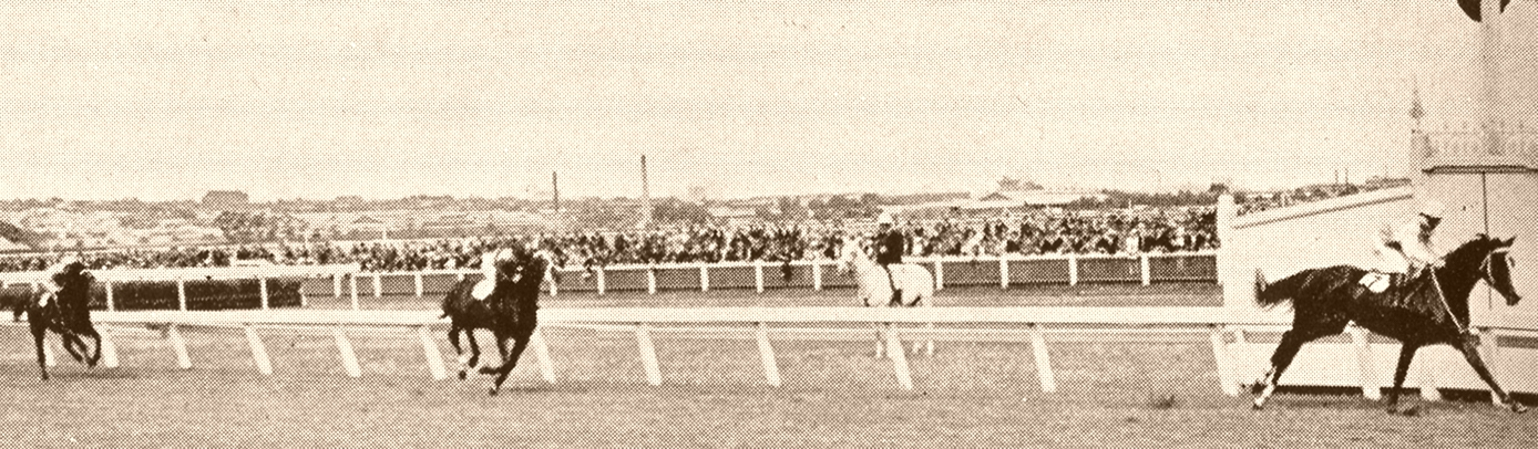 Tranquil Star (AUS), chestnut mare 1937 by Gay Lothario (GB) from Lone Star by Great Star (GB). Shown here winning the VRC St Leger Stakes.